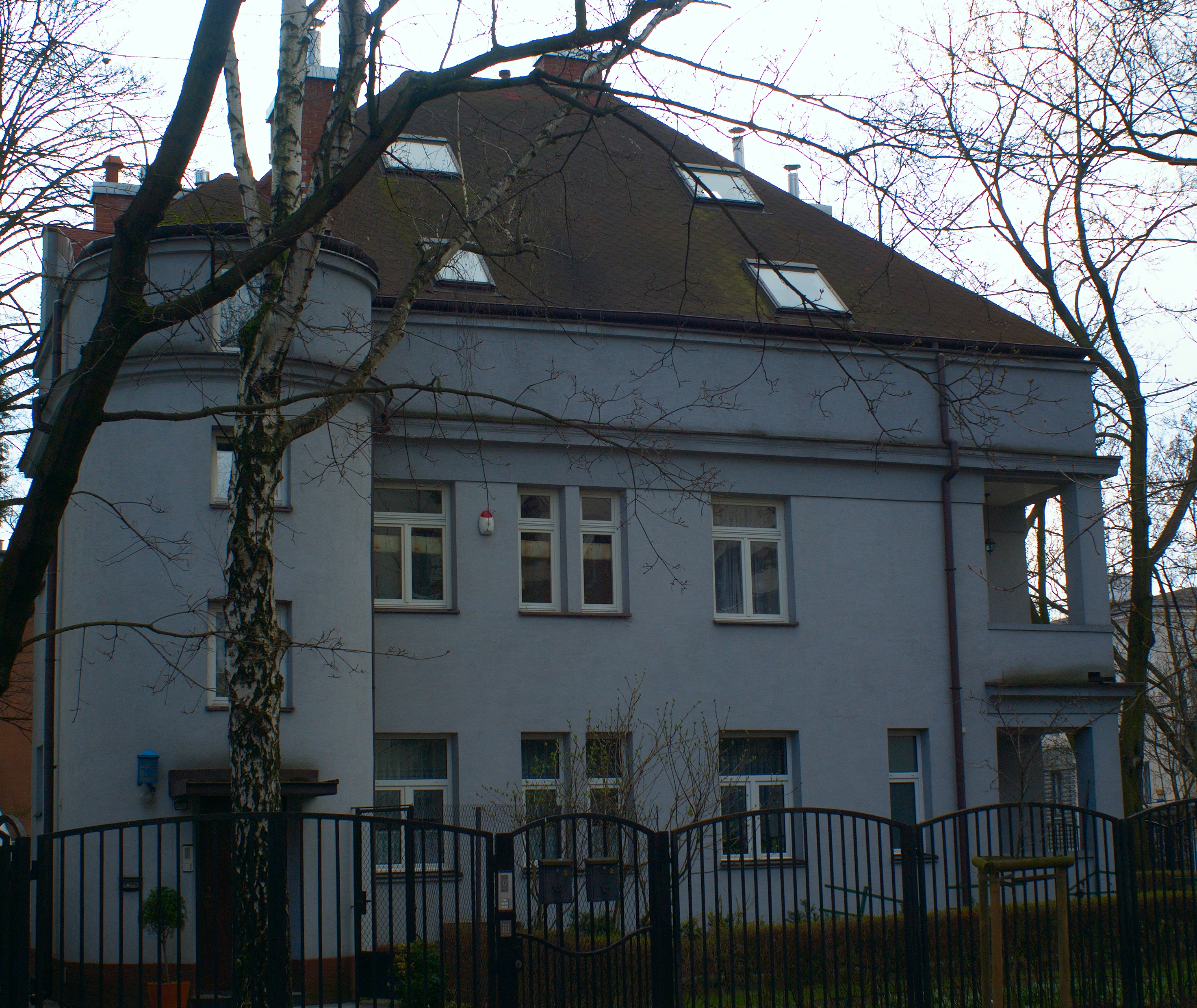 Wanda Fiszer House, Berezyńska 20, Warsaw, Poland